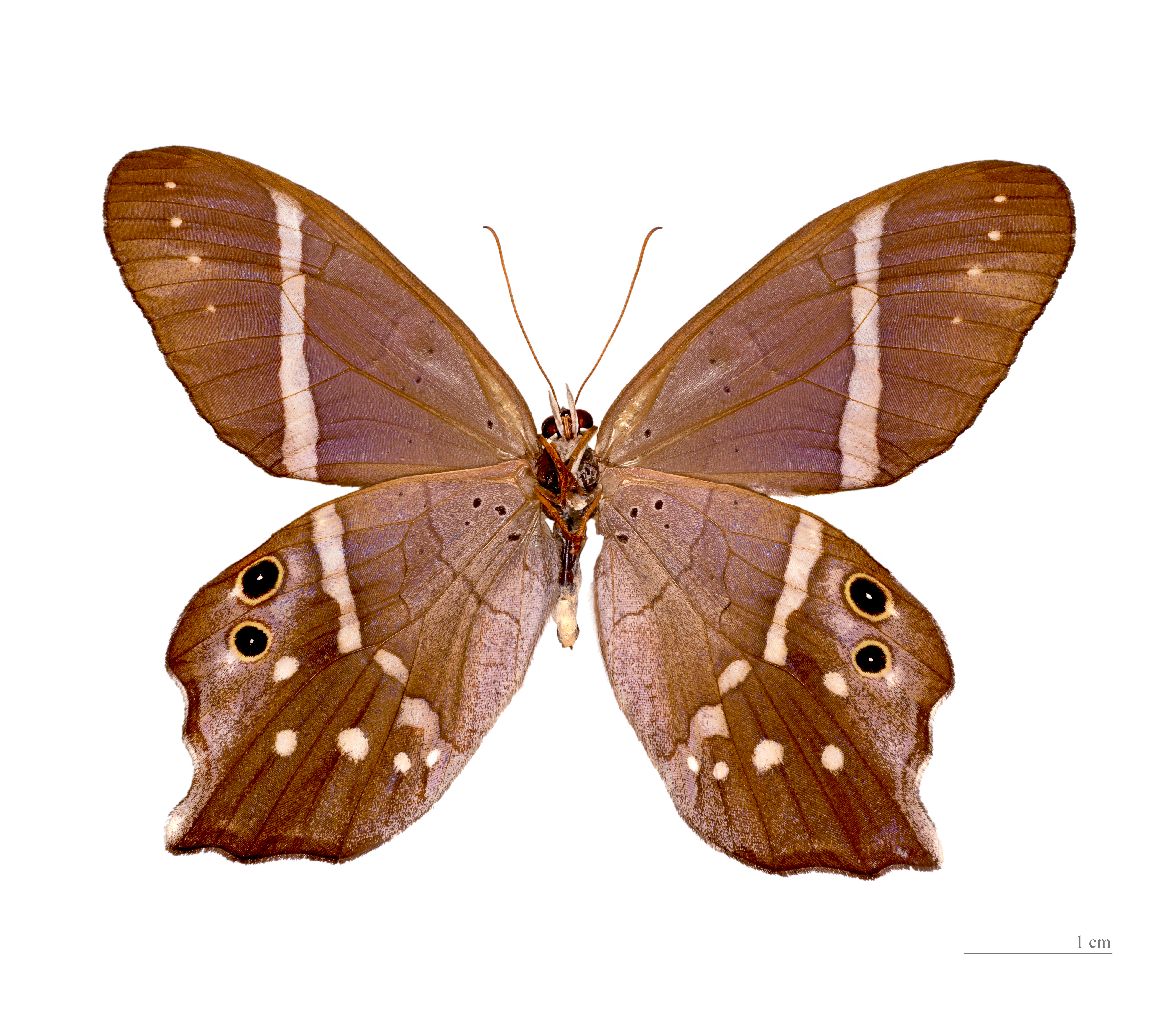 ♂ - △ Ventral side Locality : Cacao, Crique Baguot, French Guiana